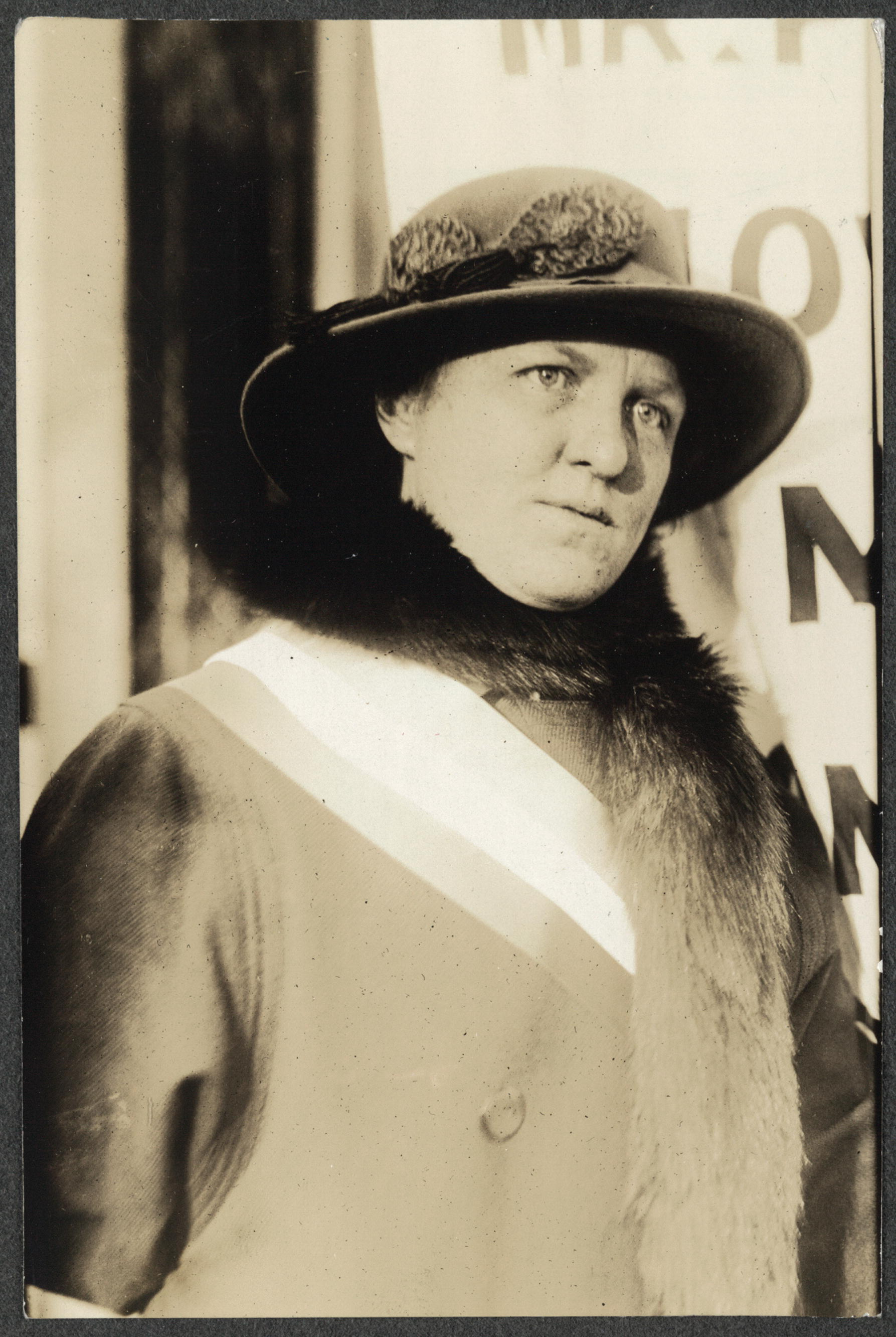 Informal portrait, half-length, Elsie M. Hill, taken outdoors on picket line, wearing wide-brimmed hat with fur trim, coat, fur stole, and tricolor (purple, white, gold) sash. Elsie Hill, of Norwalk, Conn., was the daughter of Congressman Ebenezer J. Hill of Connecticut. She was a graduate of Vassar College and taught French in a District of Columbia high school. She was a member of the executive committee of the Congressional Union, 1914-15, and later national organizer for the NWP. She was sentenced August 1918 to 15 days in District Jail for speaking at Lafayette Square meeting; in February 1919, she was sentenced to 8 days in Boston for participation in the "welcome" demonstration of President Woodrow Wilson. Source: Doris Stevens, Jailed for Freedom (New York: Boni and Liveright, 1920), 361.